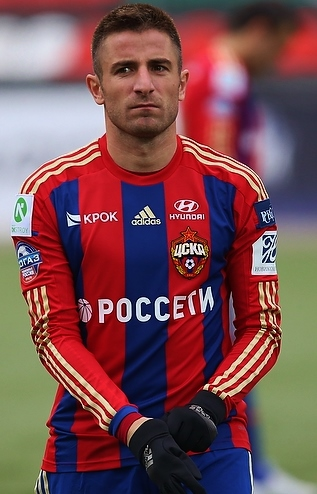 Zoran Tošić